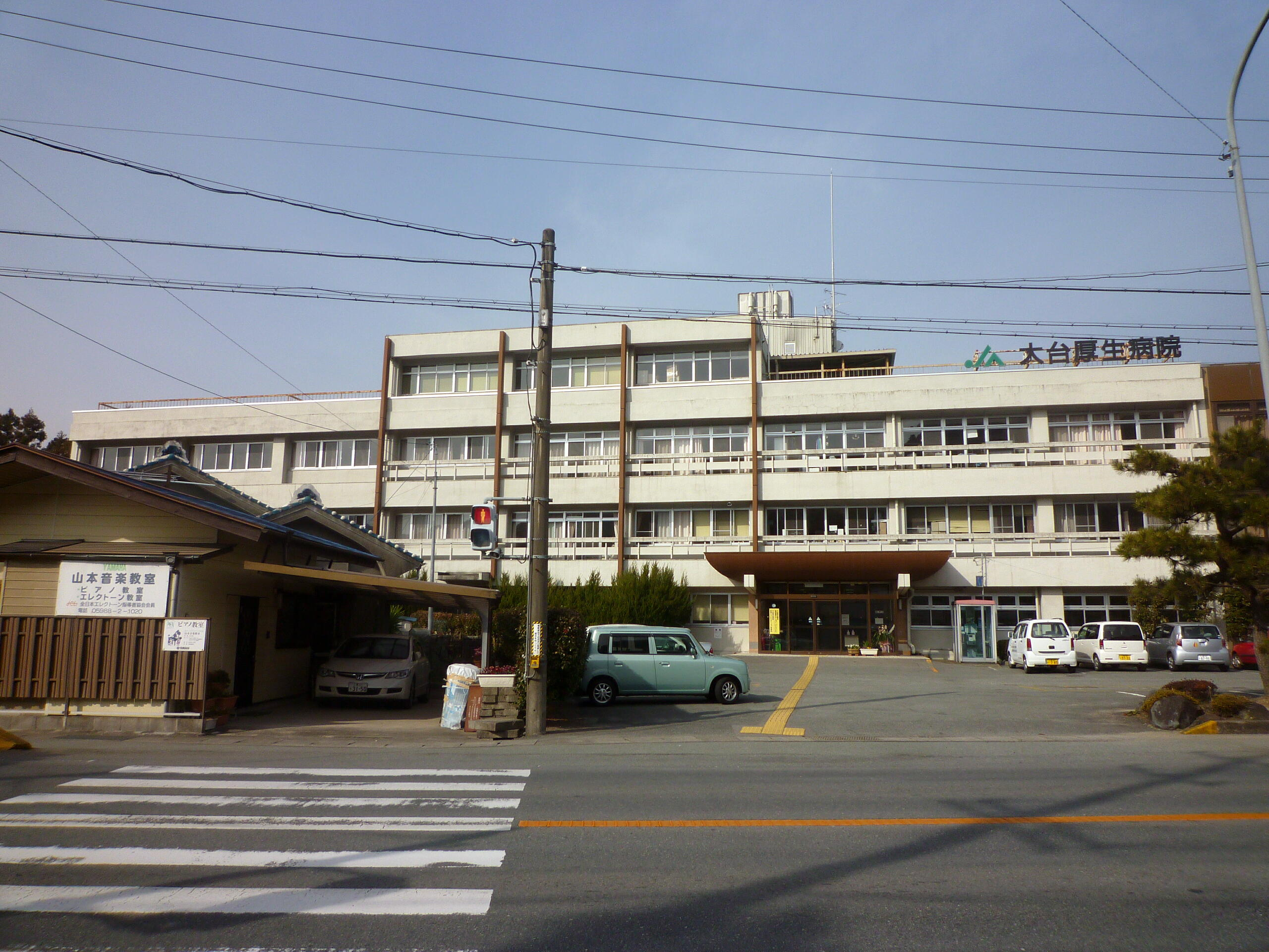 The "Ōdai Kōsei Hospital" in Sawara, Ōdai Town, Taki District, Mie, Japan.